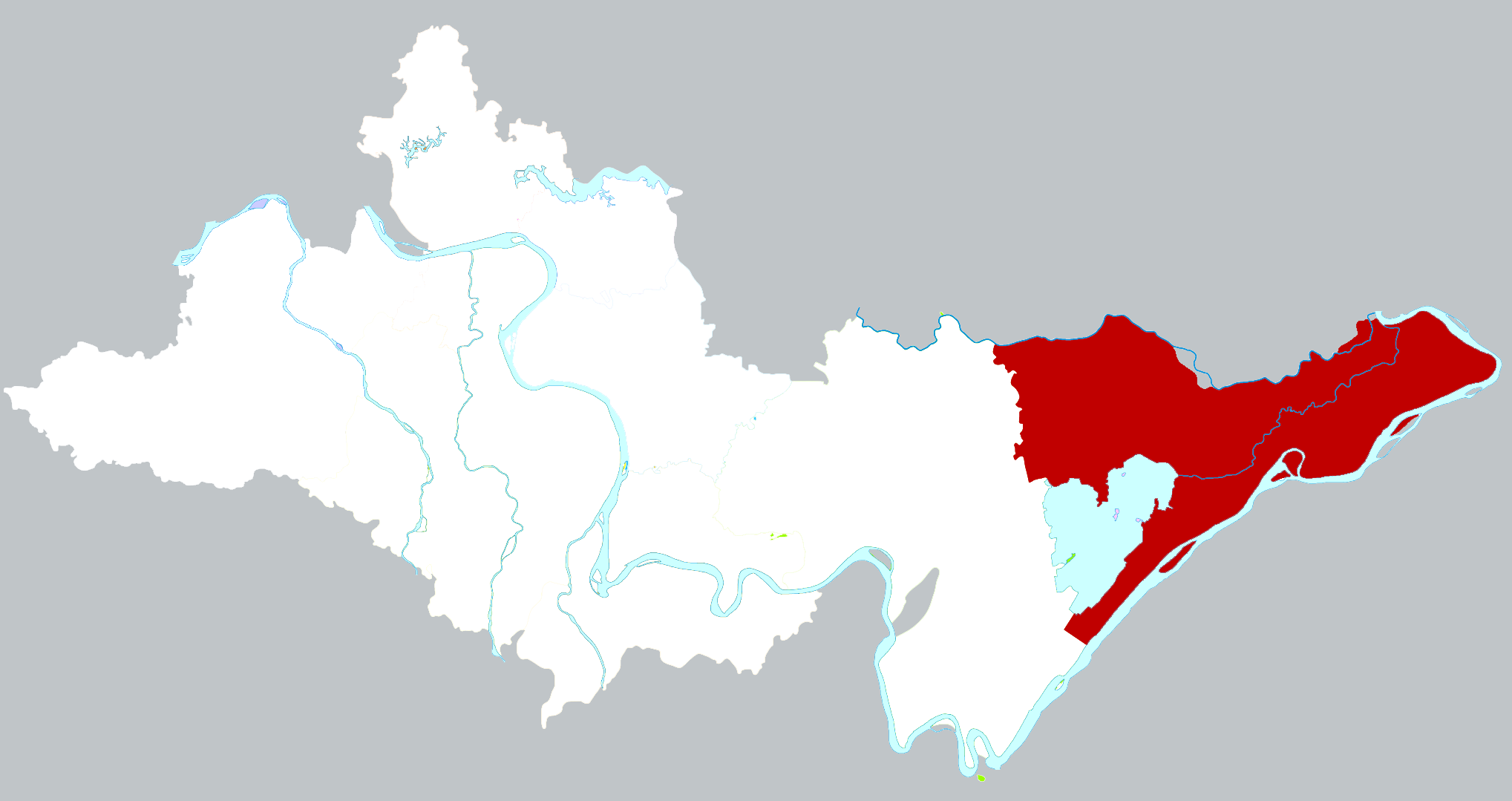 Location of Honghu county-level city in Jingzhou city, China